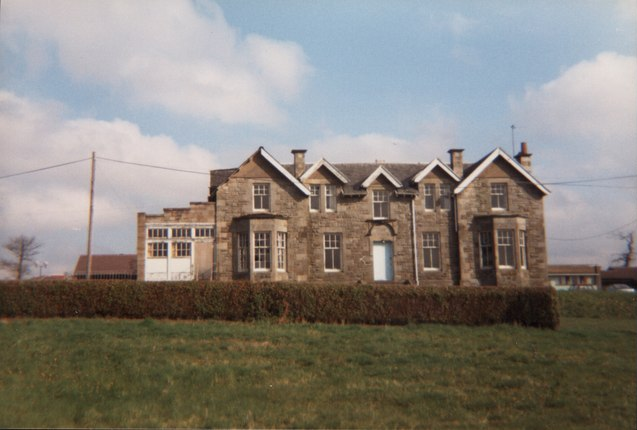 Hairmyres Reformatory. The original hospital was built as the Lanarkshire Inebriate Reformatory in 1904. The buildings were later used as accommodation for male nursing staff and were demolished in 1989.